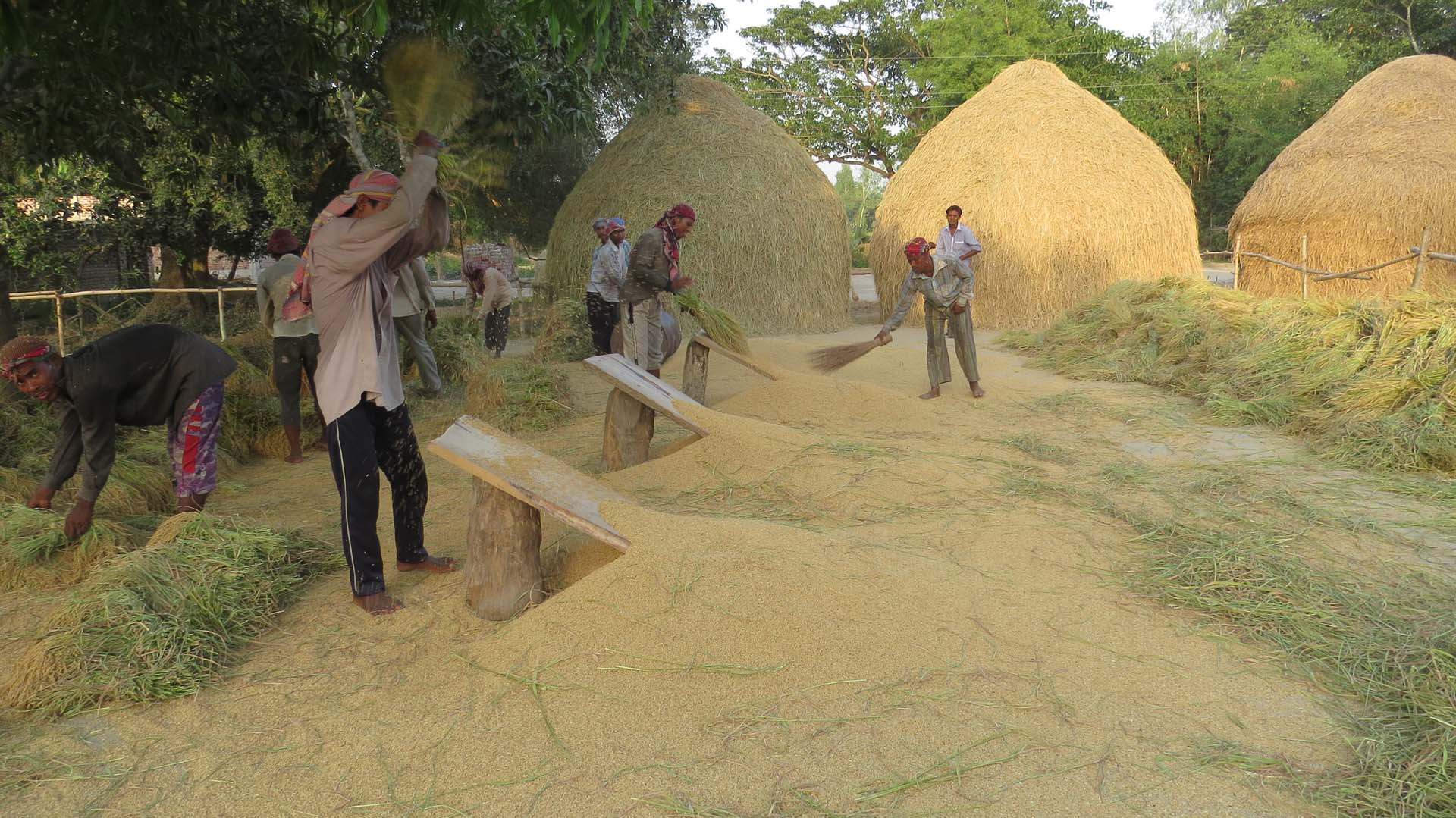 Rice threshing, Dupchanchia, Bogra, Rajshahi